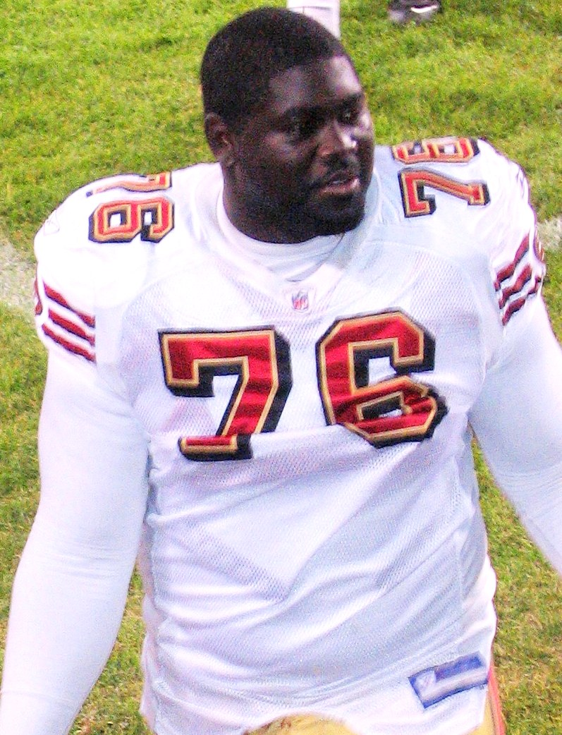 Former San Francisco 49ers defensive tackle Joe Cohen at the 2008 preseason game against the Chicago Bears.